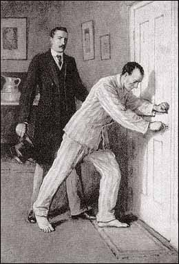 Arthur Conan Doyle, The Adventure of the Dying Detective (1913), Illustration by Walter Paget, in The Strand Magazine